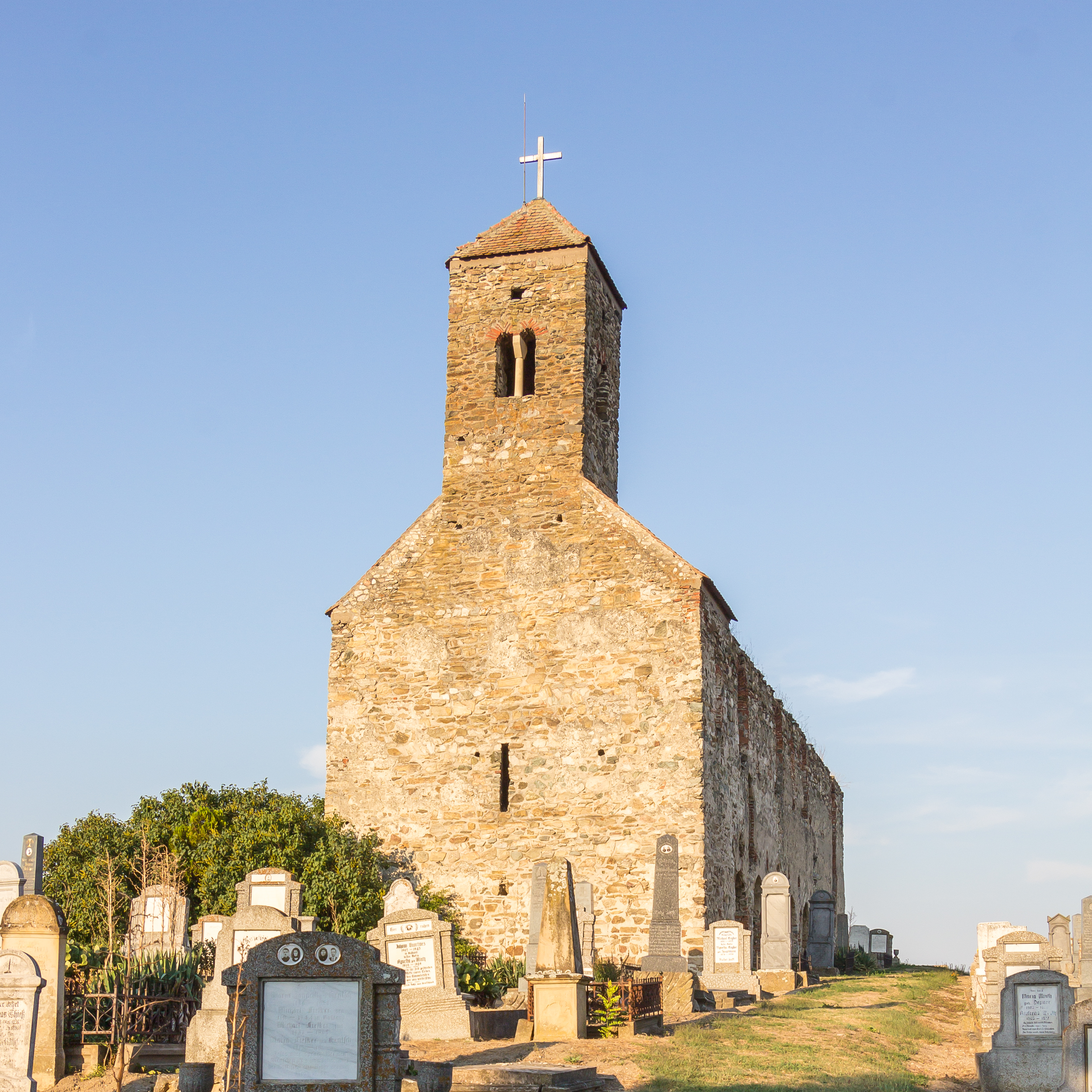 Mountain church Gârbova, Romania